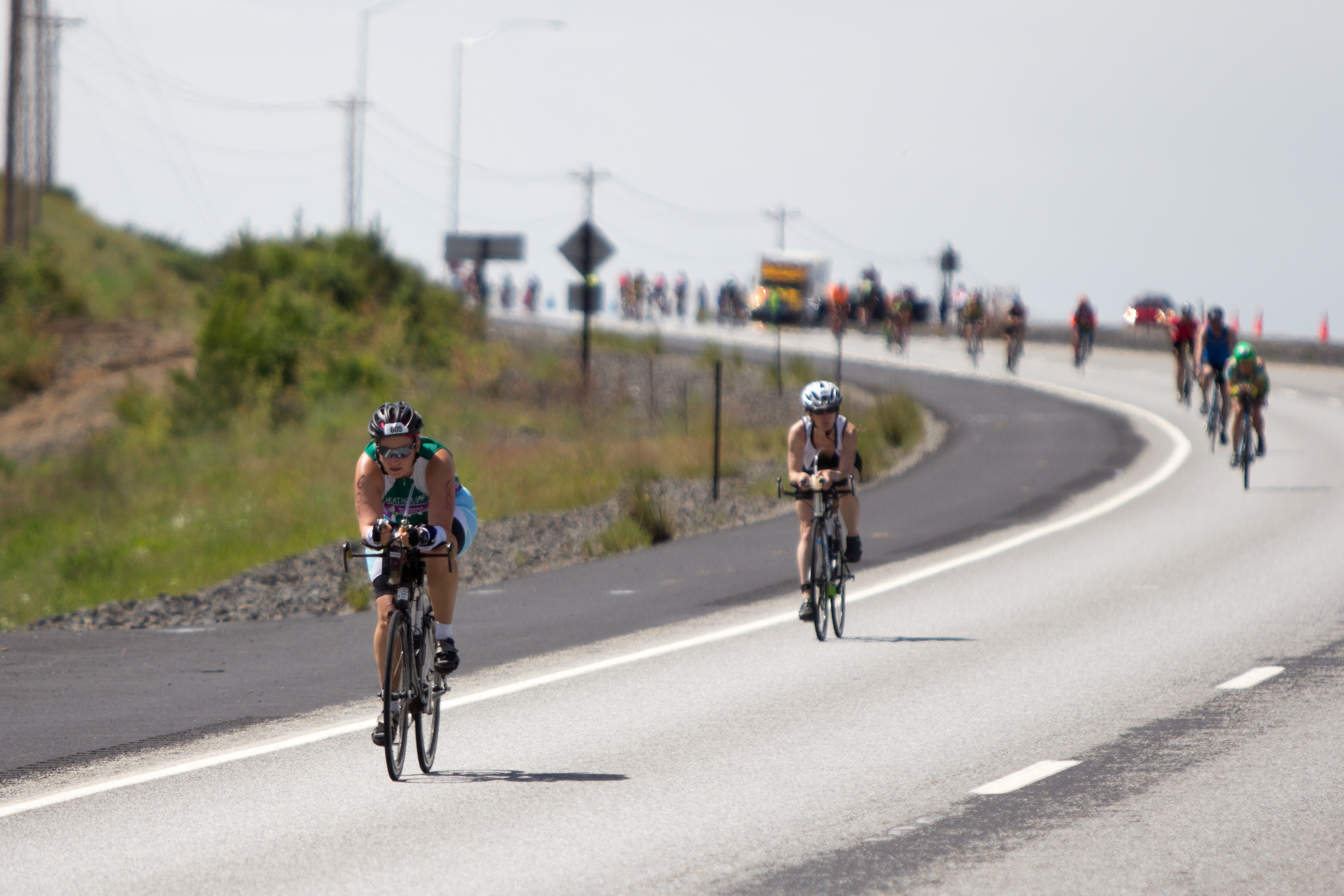 IronmanCDA2013-57